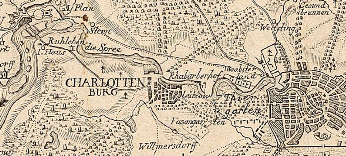 C. L. Oesfeld 1778 Gegend by Berlin Und Potsdam (Ausschnitt)